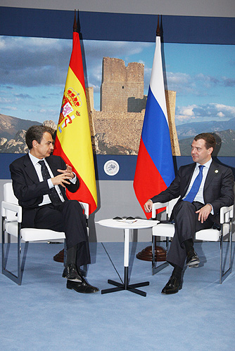 L’AQUILA, ITALY. With Prime Minister of Spain Jose Luis Rodriguez Zapatero.